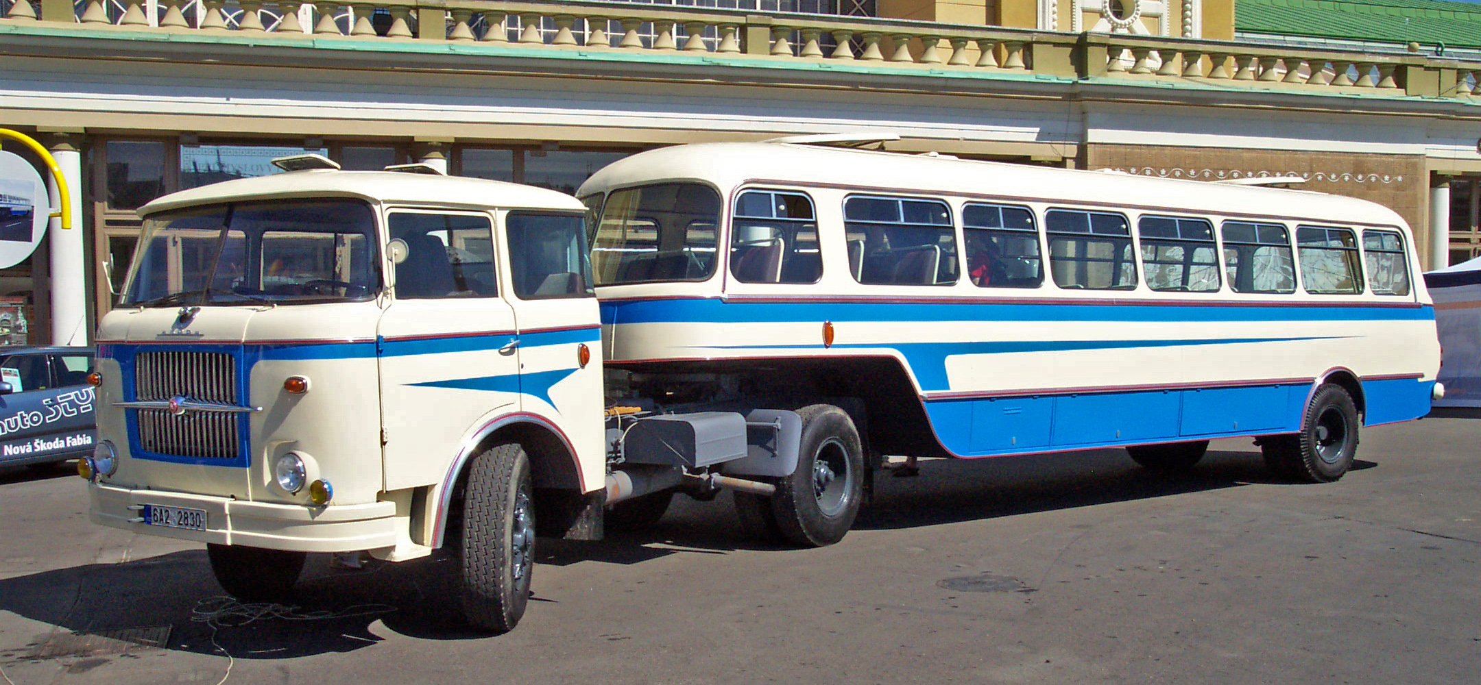 Bus trailer model Karosa NO 80 at the exhibiton in prague Výstaviště - exhibition park. Trailer bus built 1958, ČSAP Nymburk operator.